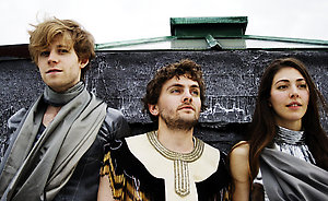 Chairlift; From left to right; Patrick Wimberly, Caroline Polachek.